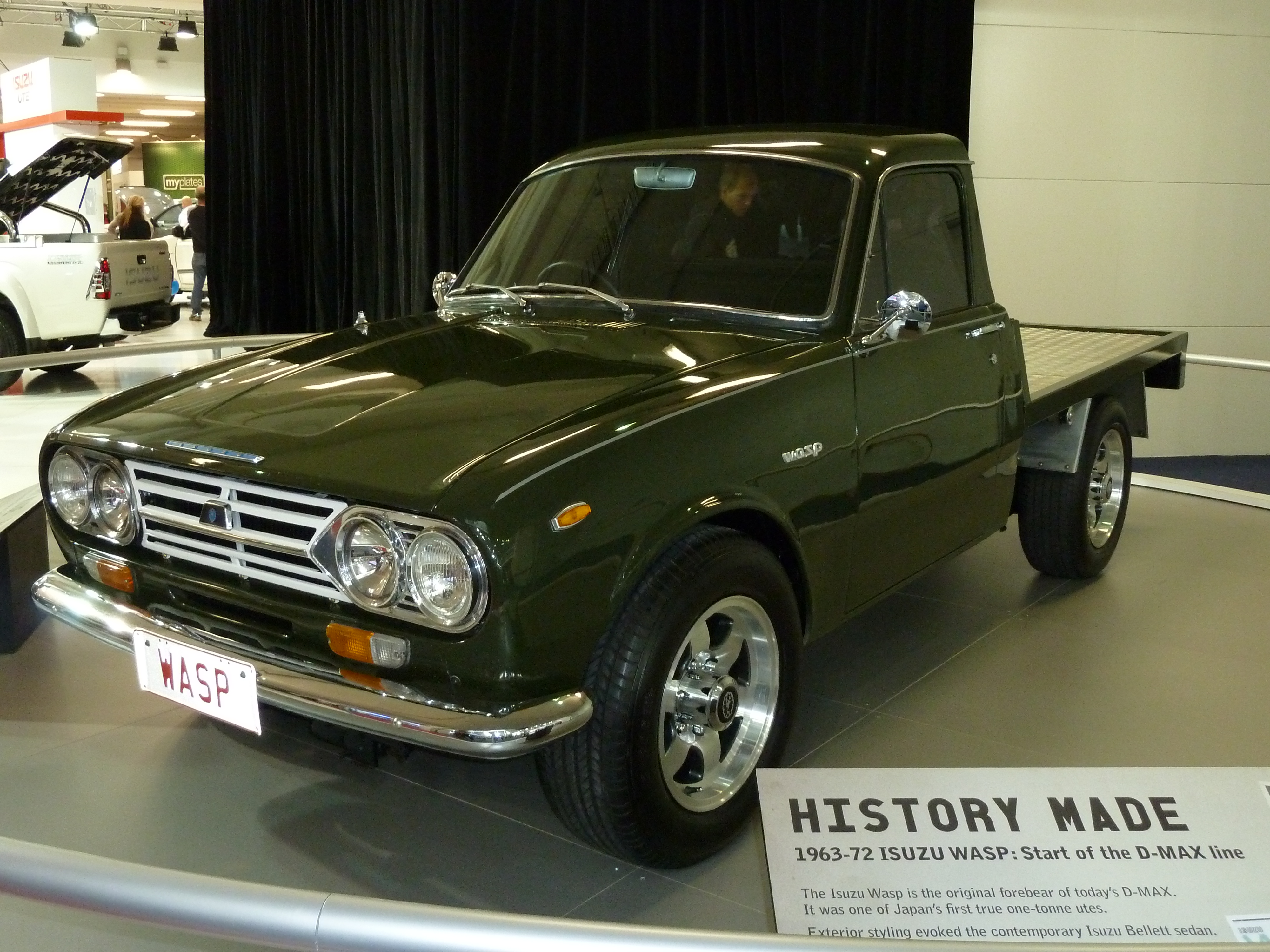 1965 Isuzu Wasp (KR20) cab chassis. Photographed at the 2010 Australian International Motor Show, Sydney, New South Wales, Australia.